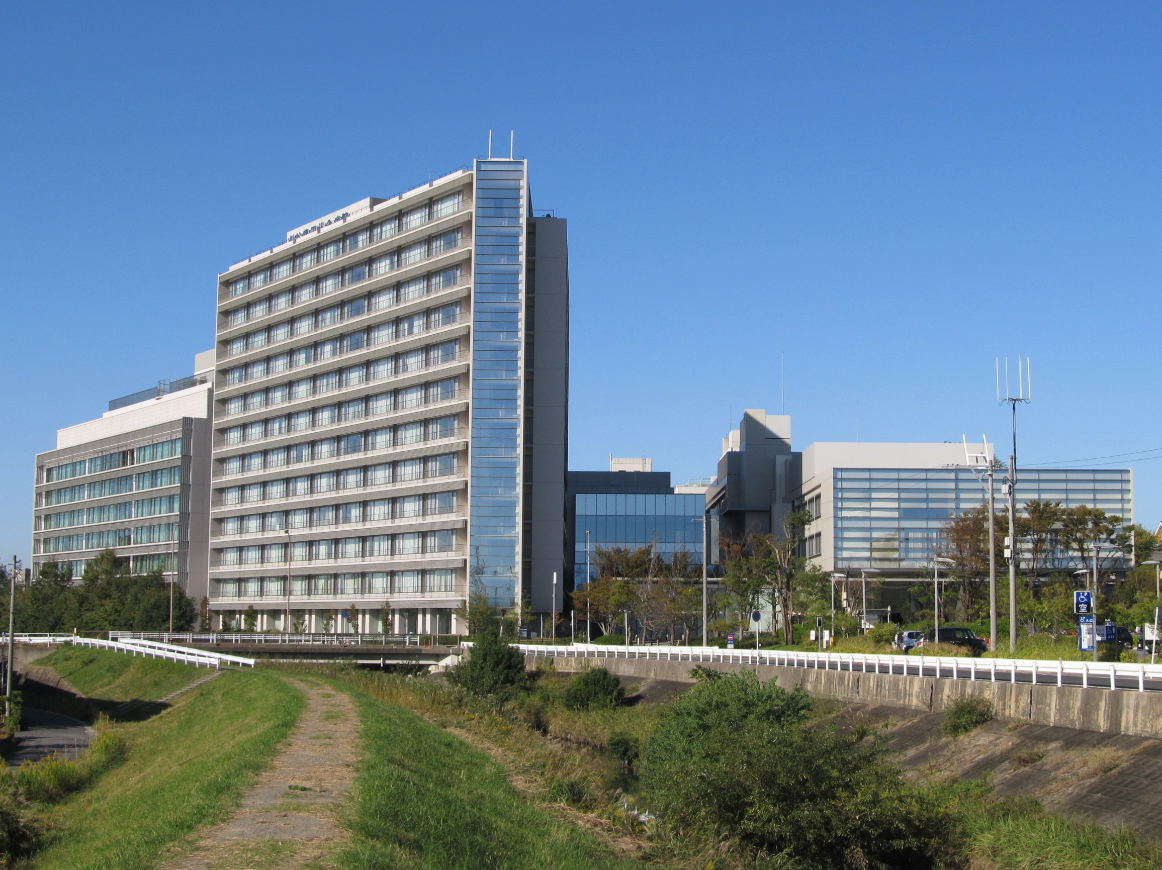 Aichi Prefecture Kariya City Kariya-Toyota General Hospital (Kariya-Toyota Sōgōbyōin)